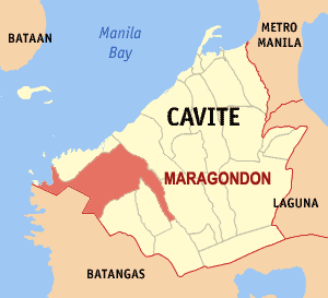 Map of Cavite showing the location of Maragondon